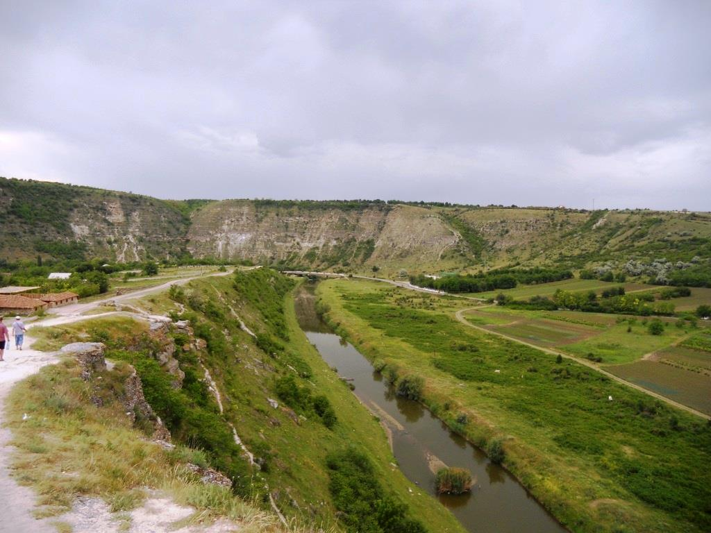 Image from "Orheiul Vechi" ("Old Orhei"), a cultural and natural sanctuary located near the village of Butuceni, Orhei DistrictRomână: Vedere din Rezervația cultural-naturală „Orheiul Vechi”, satul Butuceni, raionul Orhei